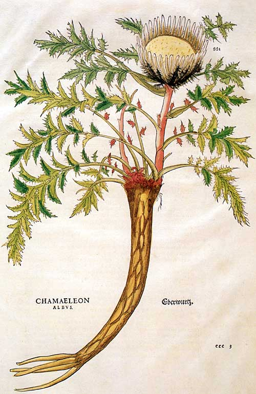 What Leonhart Fuchs called "Chamaeleon albus" in this 1542 woodcut after a painting by Albrecht Meyer for "De historia stirpium commentarii insignes" (Notable commentaries on the history of plants) is a thistle which is now known as Carlina acaulis.